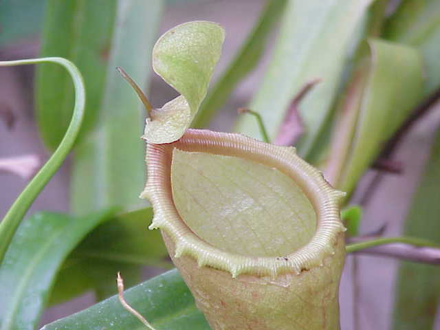 Species: Nepenthes ventricosa Family: Nepenthaceae Image No. 3